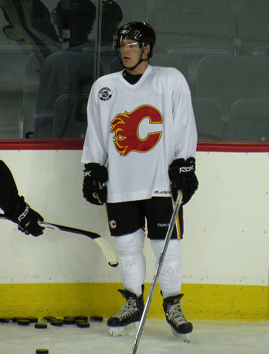 Calgary Flames prospect Dan Ryder at the team's 2008 prospect camp.